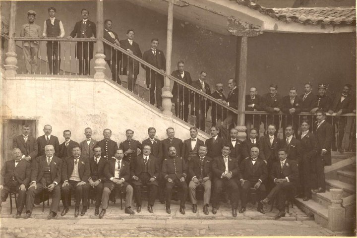 Aristocracia ayacuchana